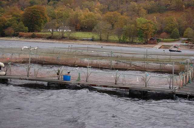 Loch Linnhe Salmon Farming on the Loch. Look closely and see them jumping.